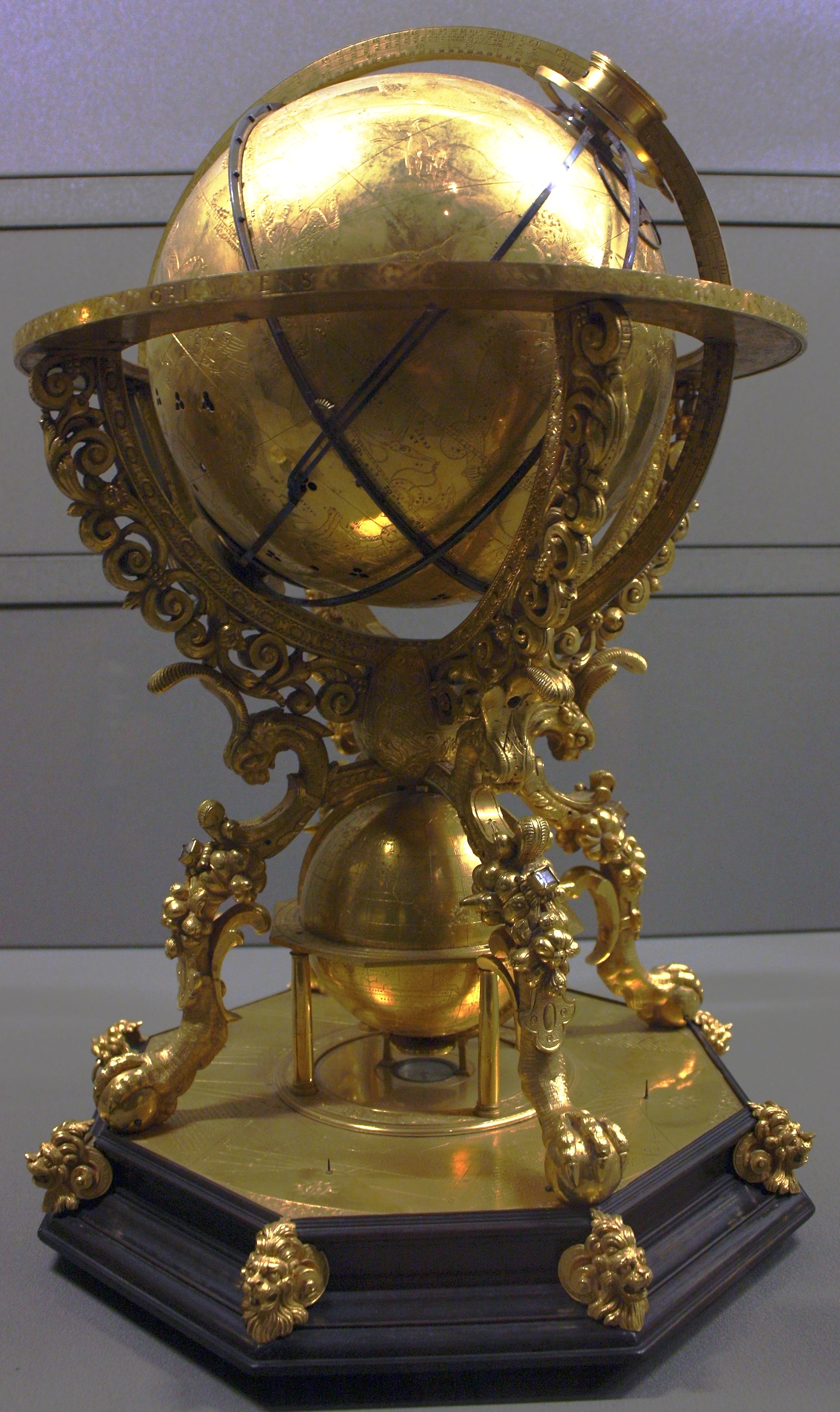 Mechanical celestial sphere by Johan Reinhold, 1588. Photo taken at National Conservatory of Arts and Crafts museum, Paris.